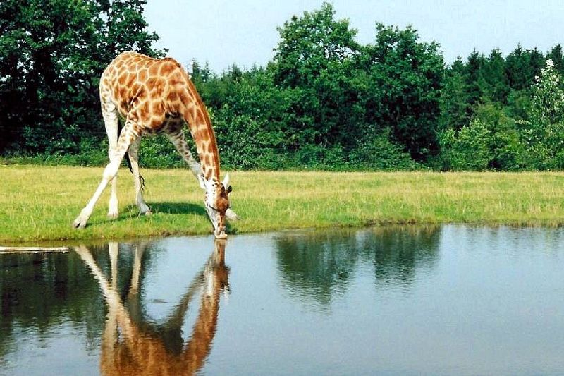 Girafe de Rostchild (Original description: "Giraffa camelopardalis rothschildi AKA. Rothschild's giraffe AKA. Baringo giraffe AKA. Ugandan giraffe, shot in Givskud Zoo (Løveparken). ")